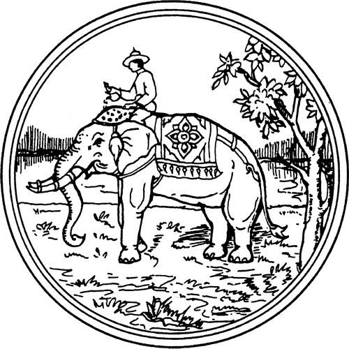 Provincial seal of Tak province.